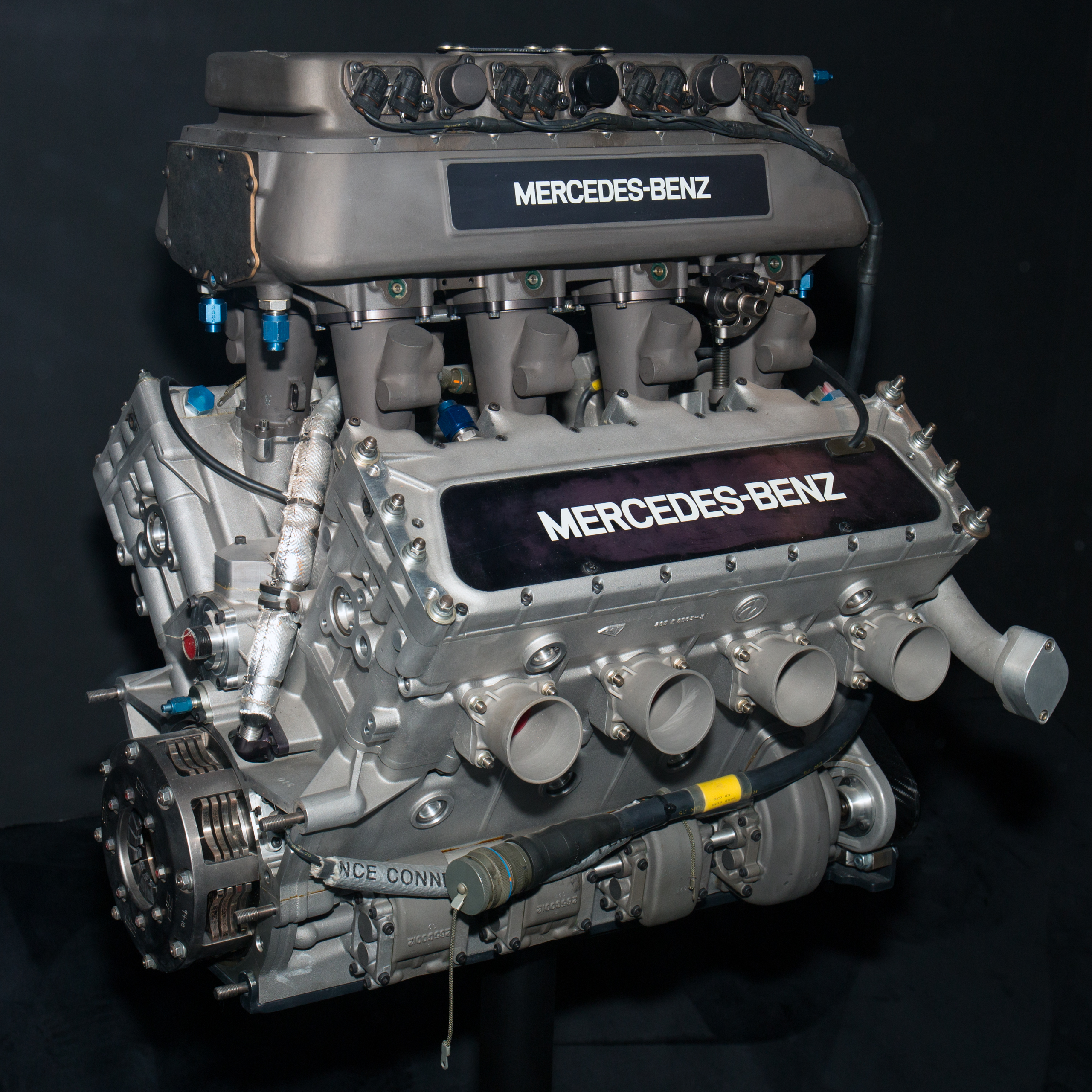 1994 Mercedes-Benz 500 I IndyCar engine